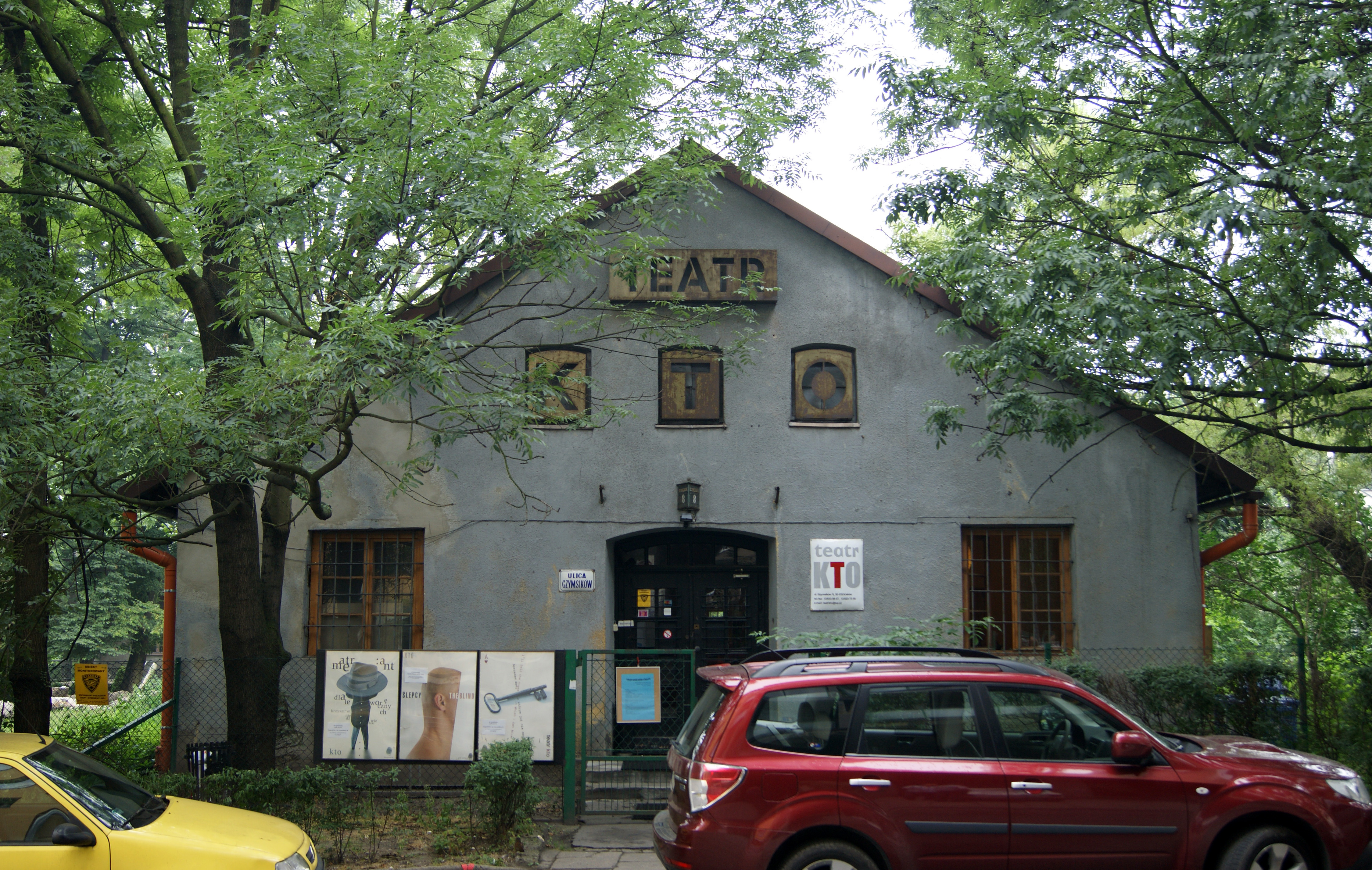 KTO Theater, 8 Gzymsikow street, Krakow, Poland